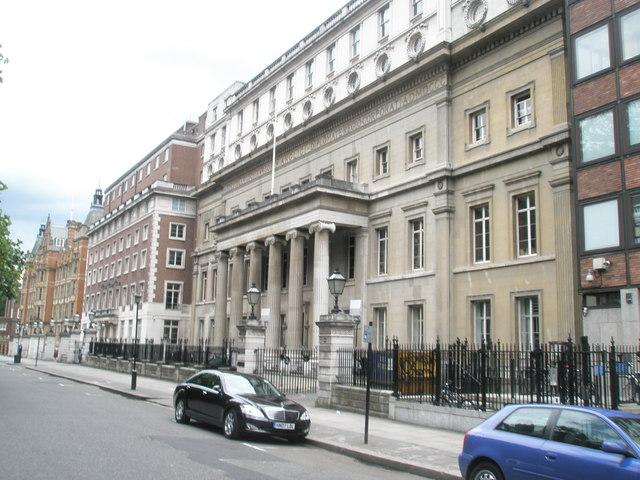 The Royal College of Surgeons on the south side of Lincoln's Inn Fields